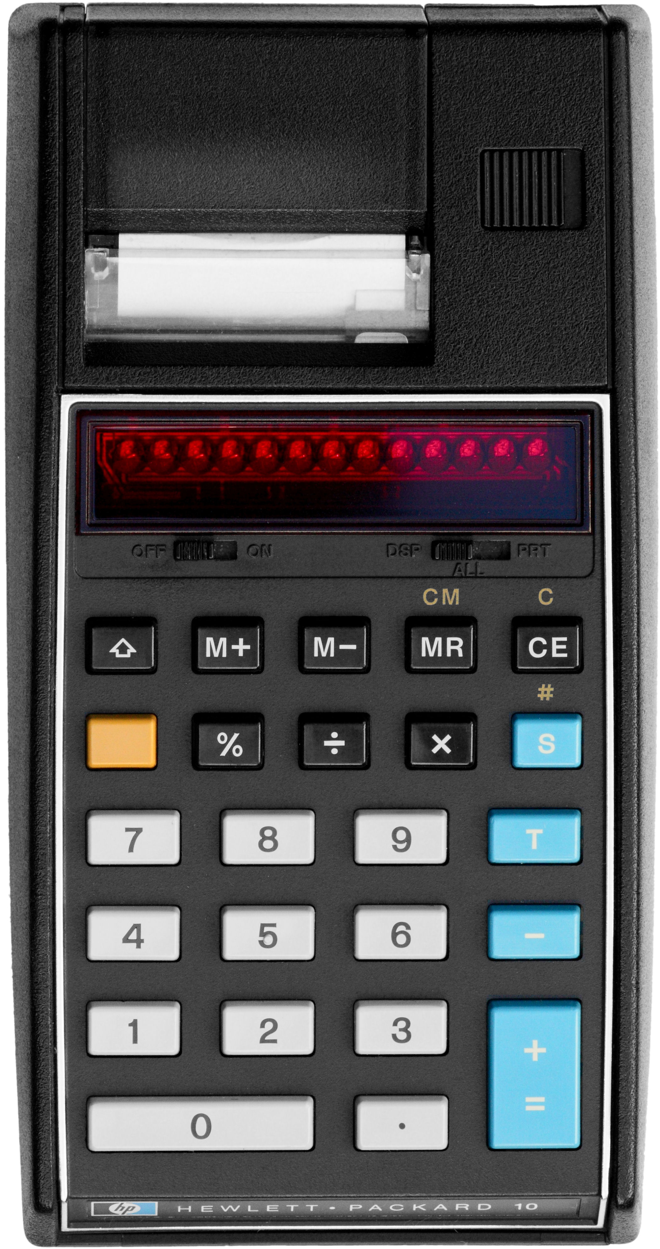 HP-10 Pocket calculator with printer, non-programmable